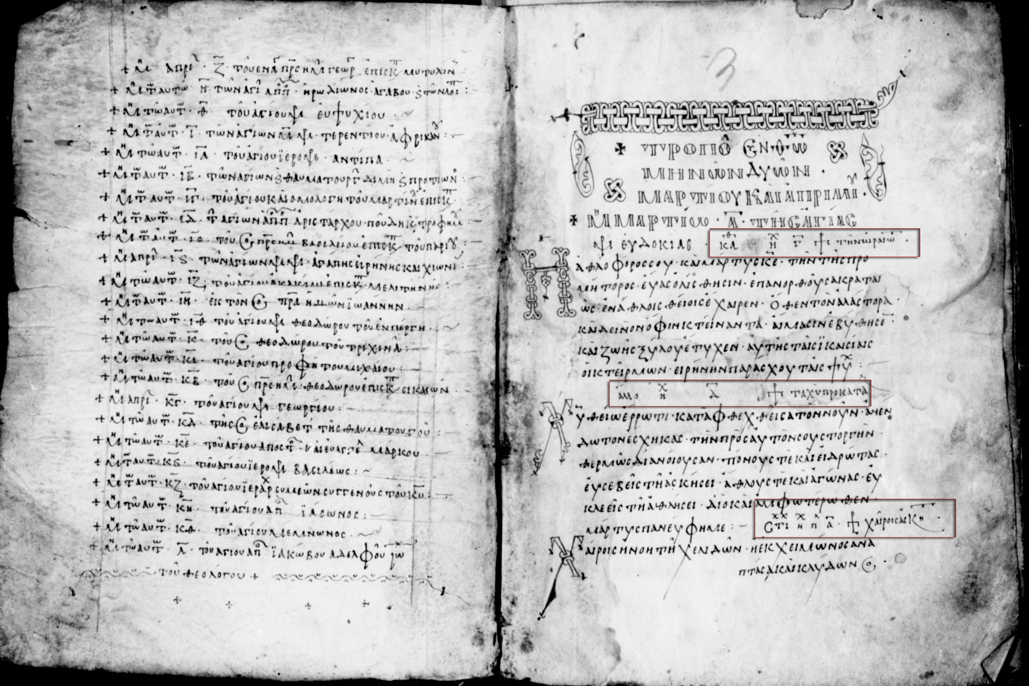 Ms. Gr. 607, fol. 3r of Saint Catherine's Monastery at Mount Sinai, a tropologion for the two months March and April, marked are the chant genre, the echos, and the incipit of the model stanza (avtomelon)